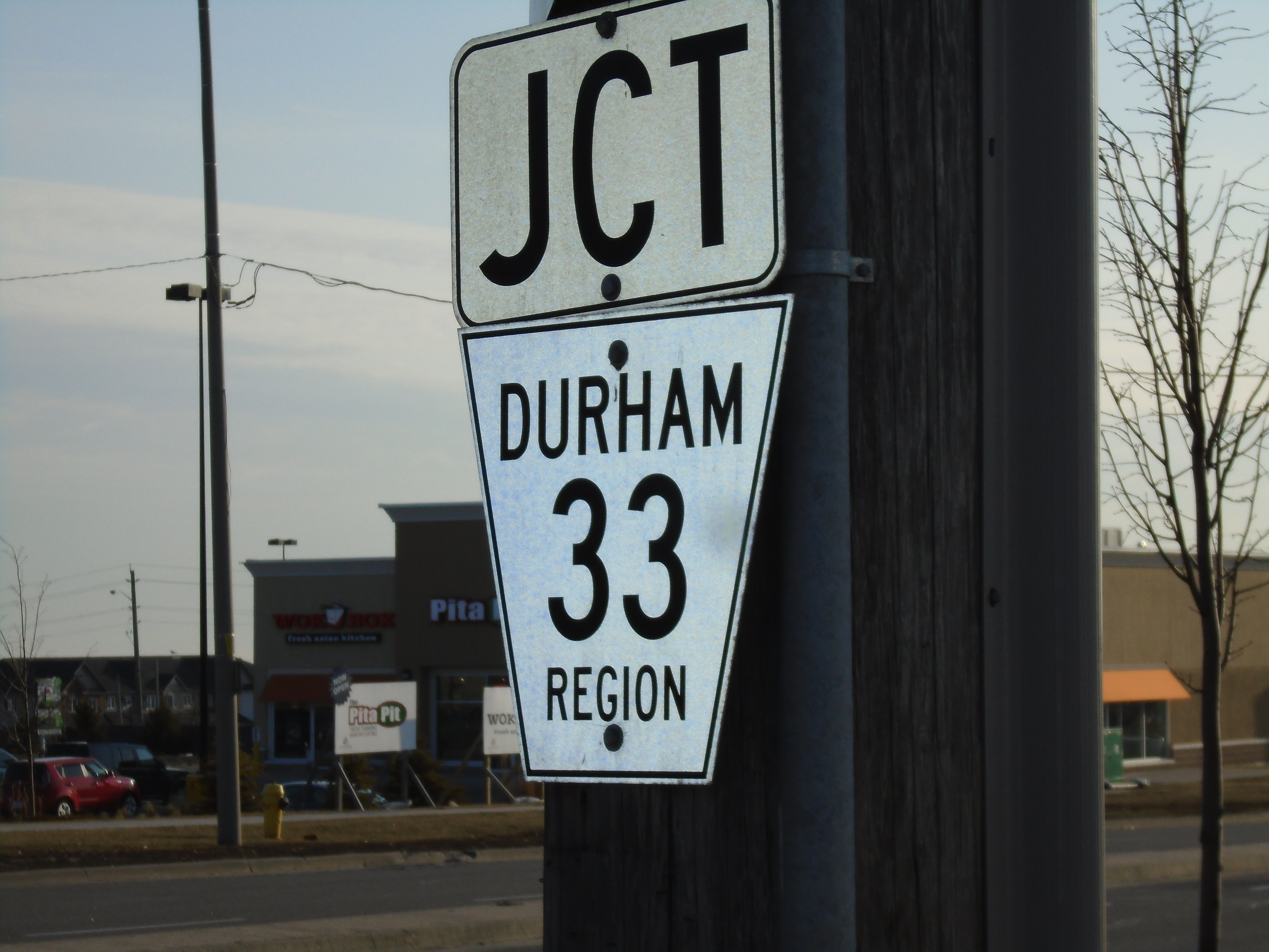 Photograph of a municipal route marker with JCT tab for Regional Road 33 of Durham Region. Photograph taken along Durham Road 4.